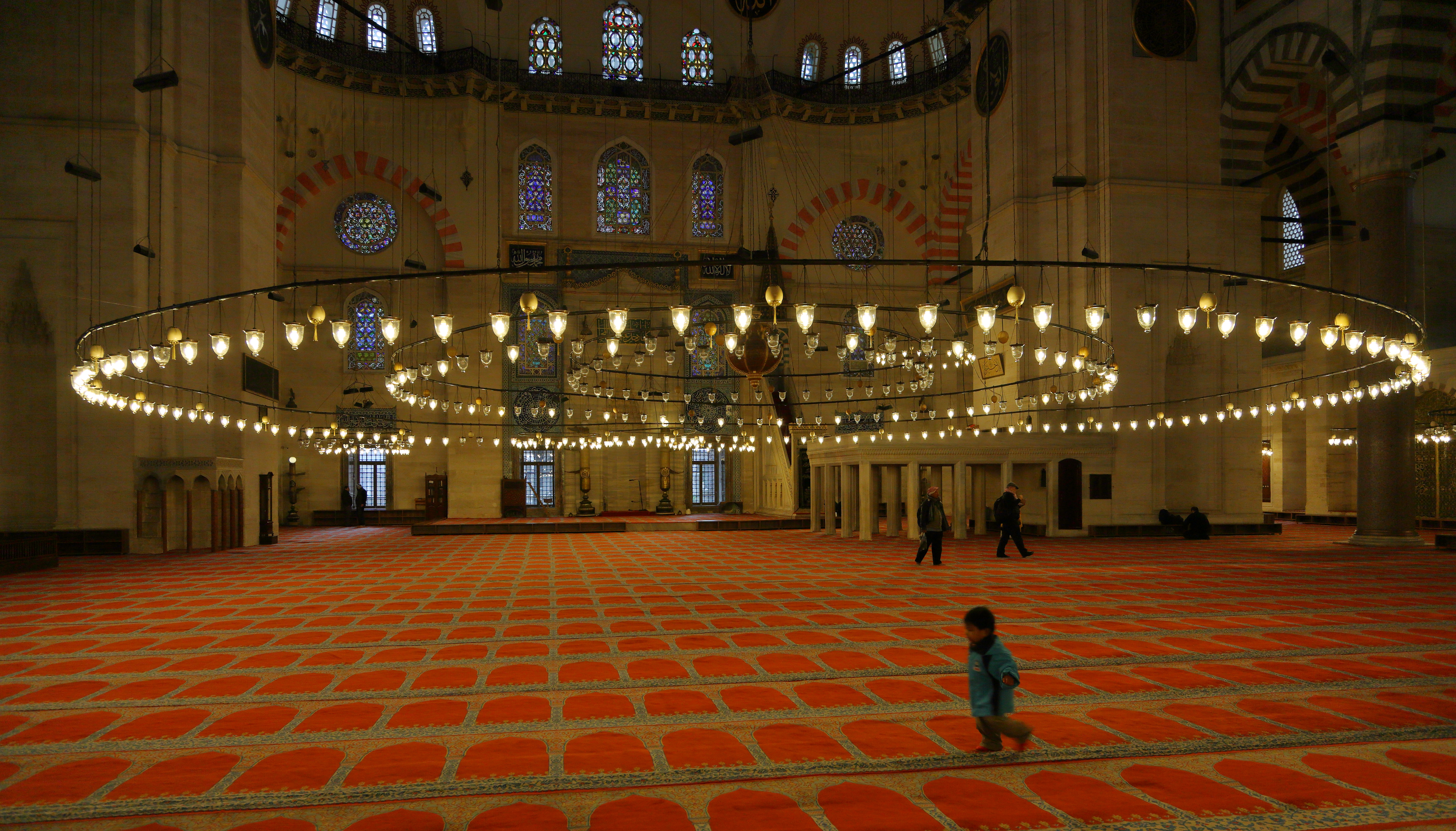 Chandelier inside Süleymaniye Mosque, Istanbul